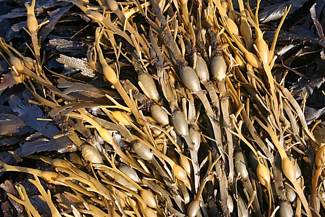 Wrack, species unknown. It isn't bladder wrack, because that has a midrib. Yes, there is clearly no midrib, this is knotted wrack (Ascophyllum nodosum) --B.navez (talk) 19:13, 2 August 2010 (UTC)